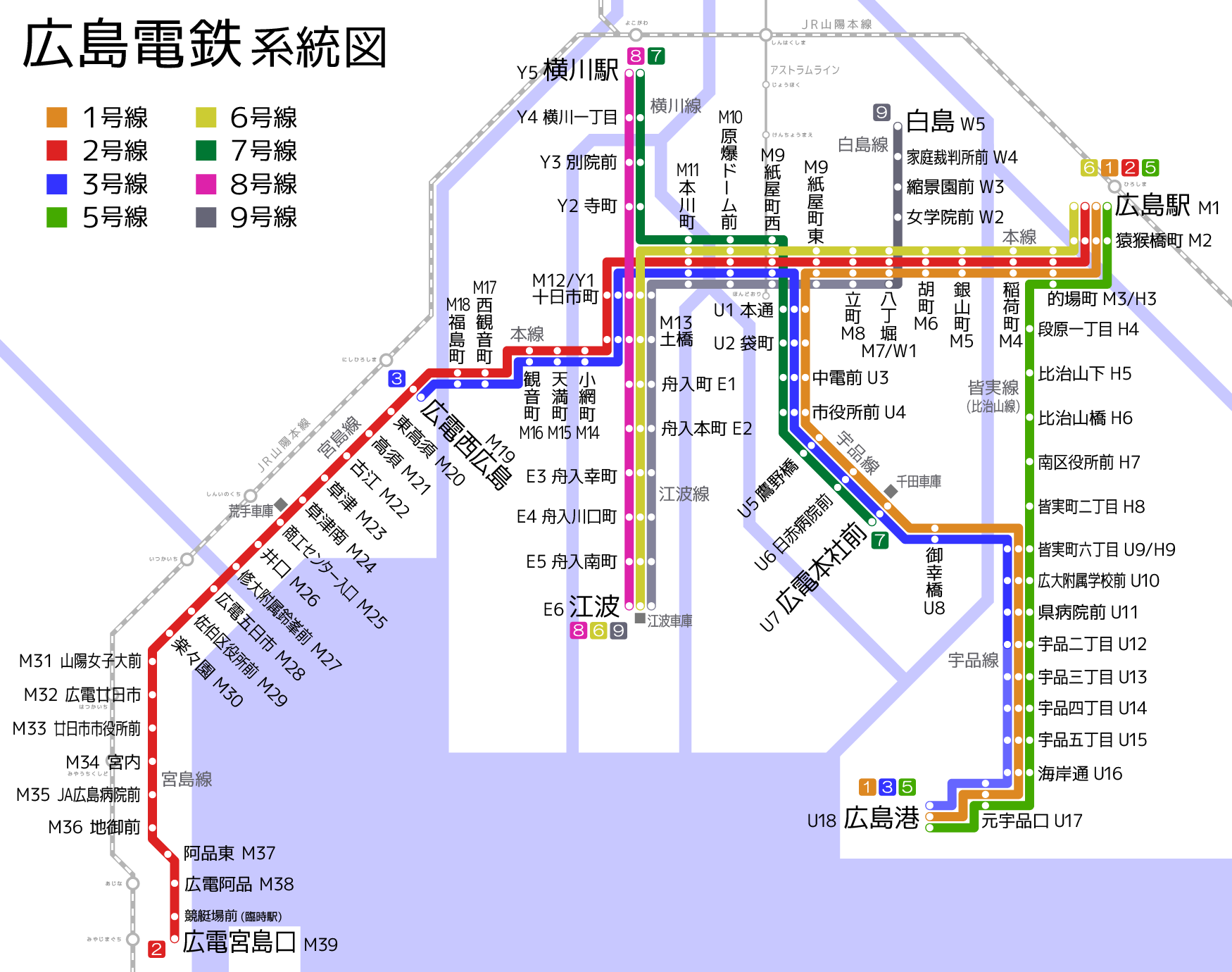 Railway lines of Hiroshima Electric Railway